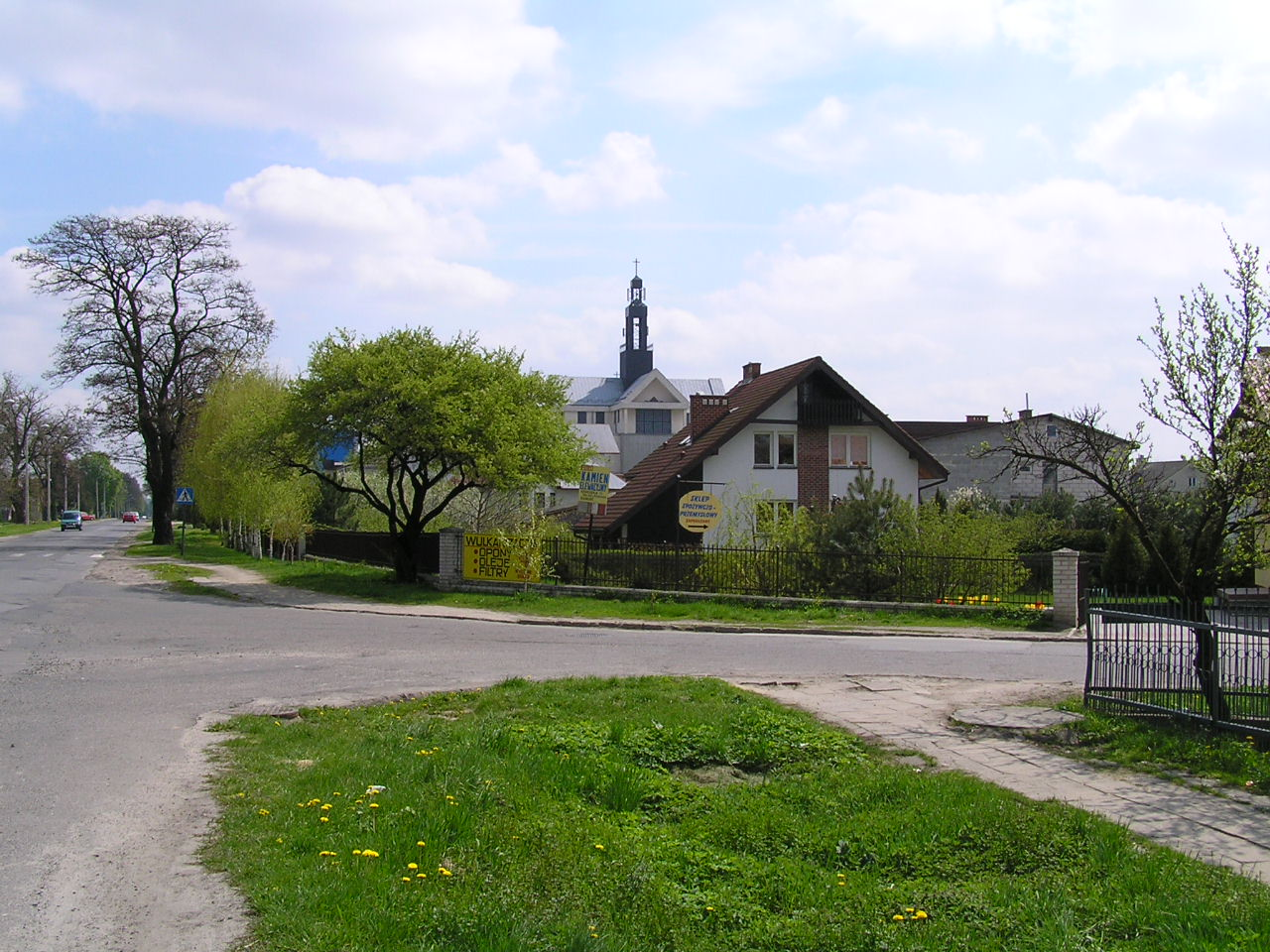 autor: Yarek shalom 22:04, 25 October 2006 (UTC)yarek shalom